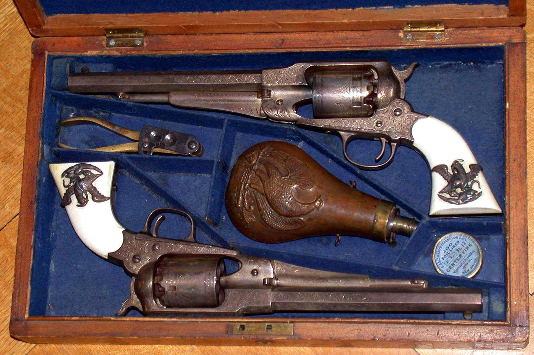 A pair of cased and engraved Remington New Model Army Revolvers, with Mexican Snake and Eagle on Ivory grips